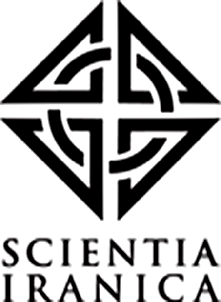 Officially registered logo of Scientia Iranica, the international journal of science and technology